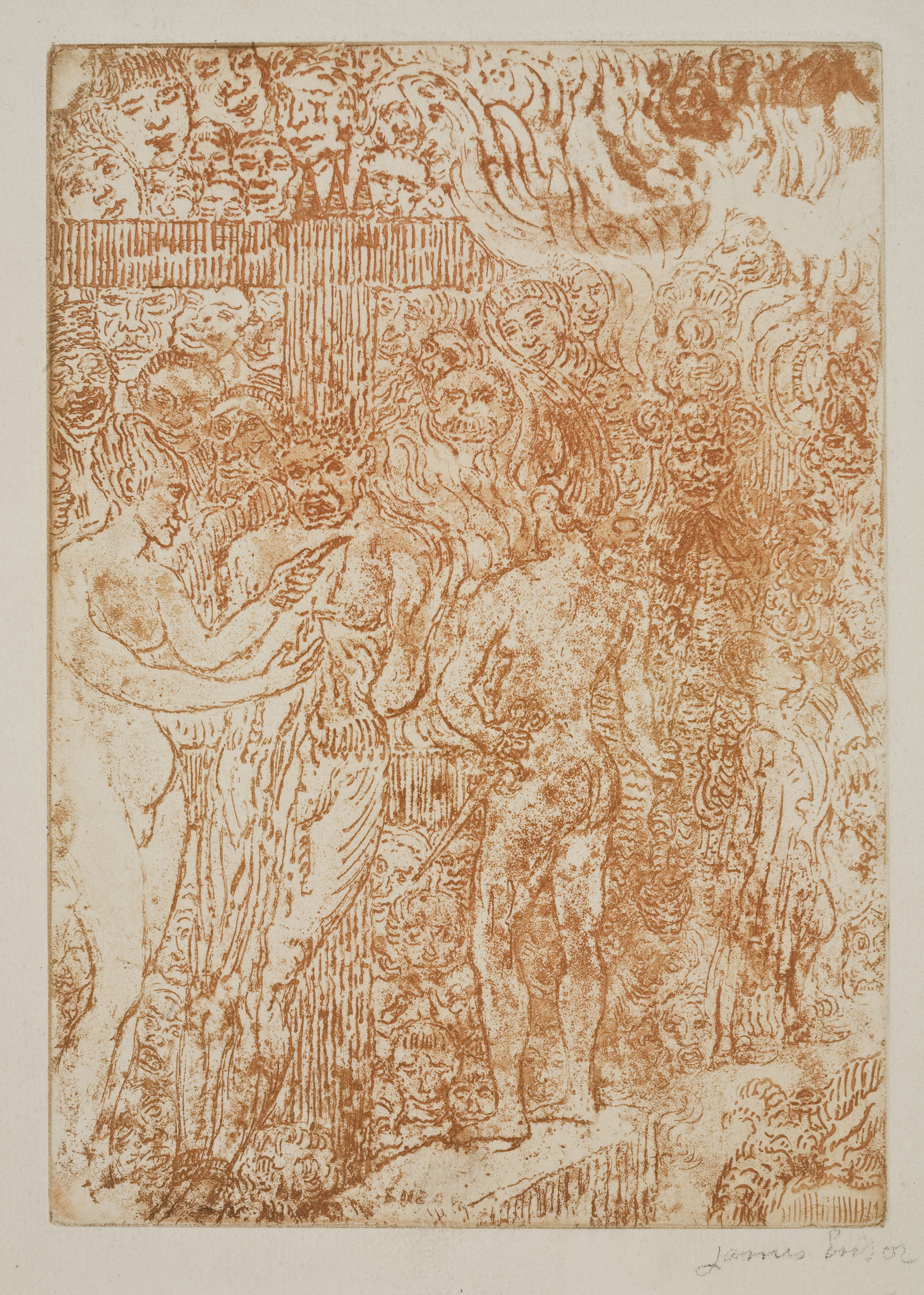 Koningin Parysatis, (James Ensor, 1899); collection: Museum voor Schone Kunsten Gent